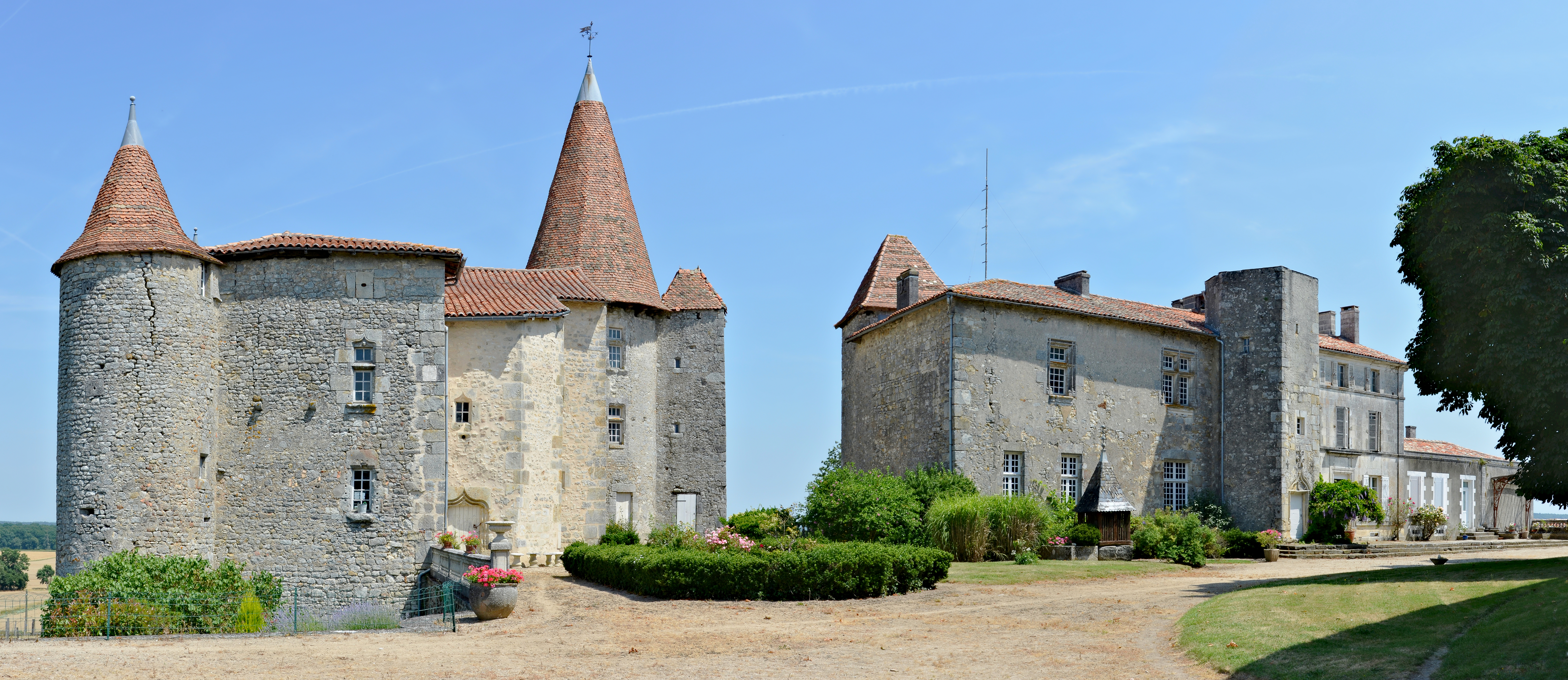 Castle of Chillac (end of 15th century), facade. Chillac, Charente, France. .